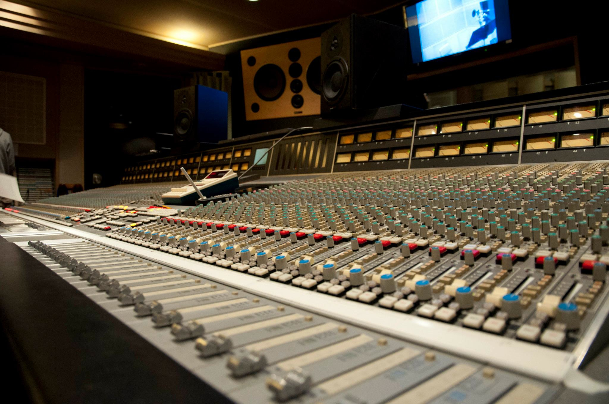 SL9064J module close up at ONKIO 1